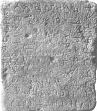 Table of Humac